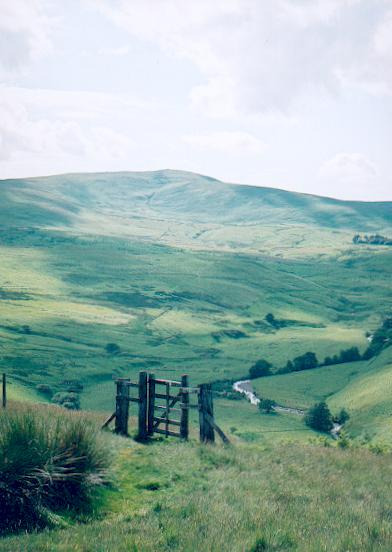 Breamish Valley Cheviot Hills. Dropping down into the Breamish valley near Alnhamoor, there is a fine view towards Hedgehope Hill.